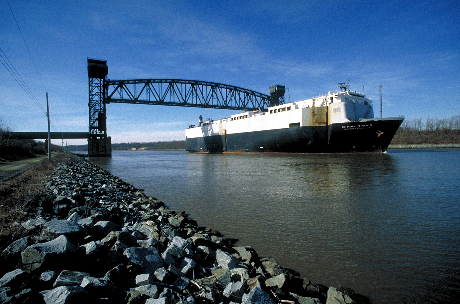 A RORO ship passes underneath the Chesapeake & Delaware Canal Lift Bridge. The bridge carries a single railroad track across the Chesapeake & Delaware Canal in New Castle County, Delaware, USA.